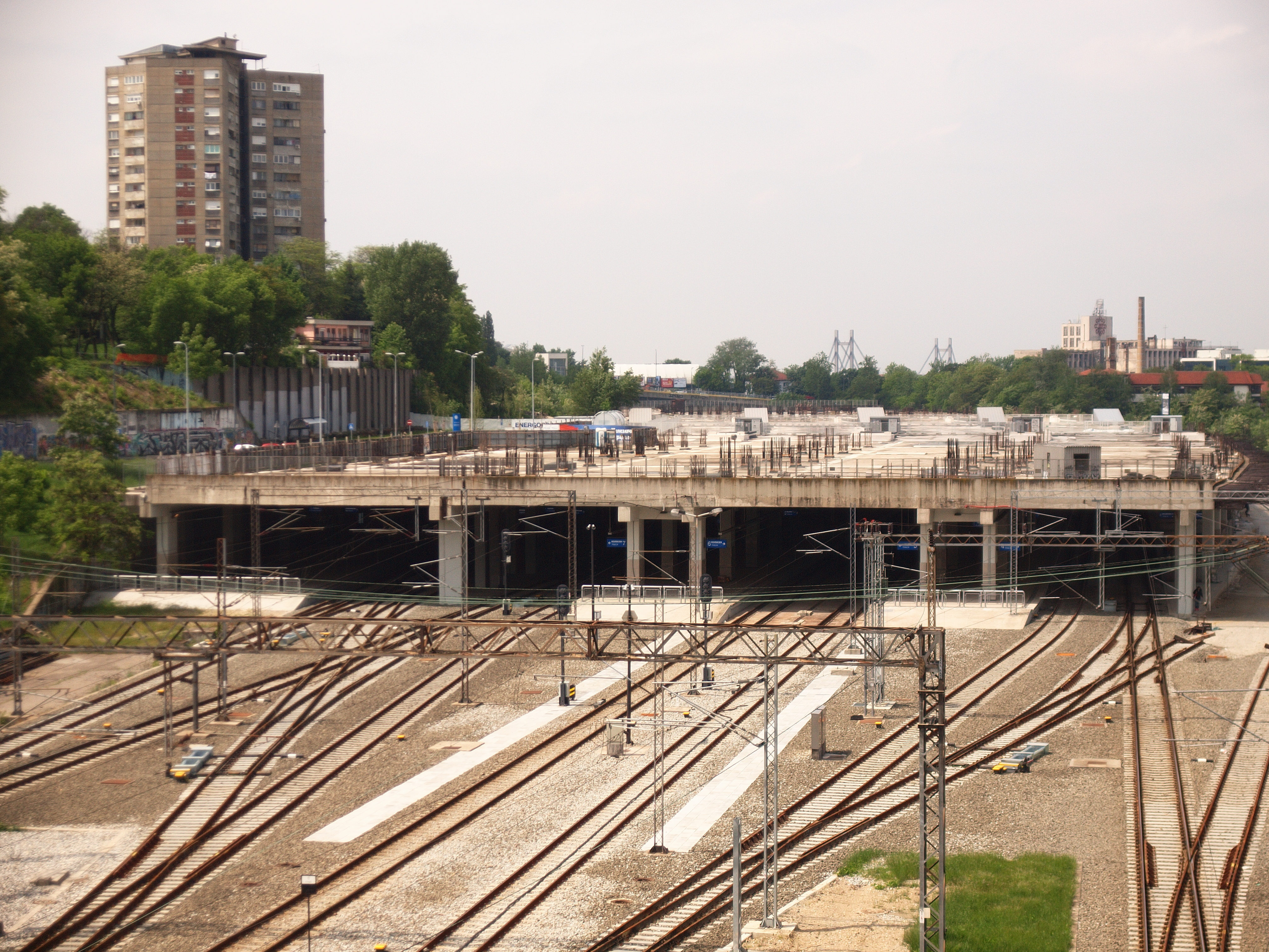 Prokop railway station